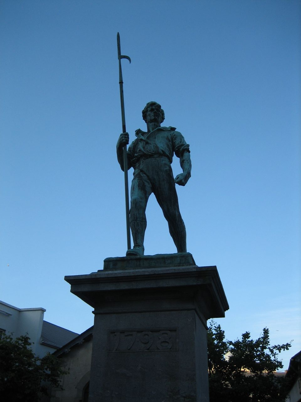 1798 Pikeman, Wexford Standing guard over the Bullring in the centre of town